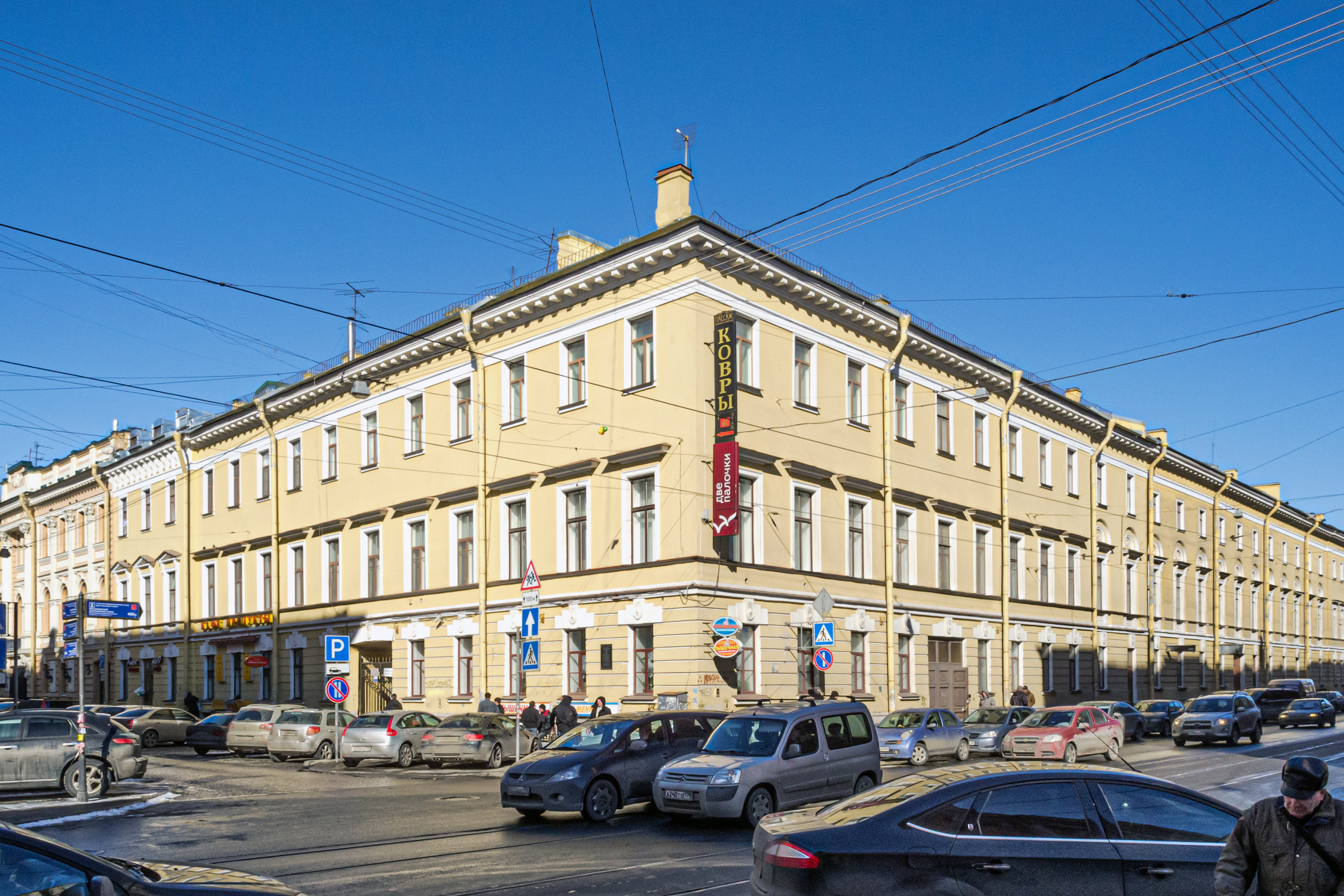 10, Italianskaya Street in Saint Petersburg.